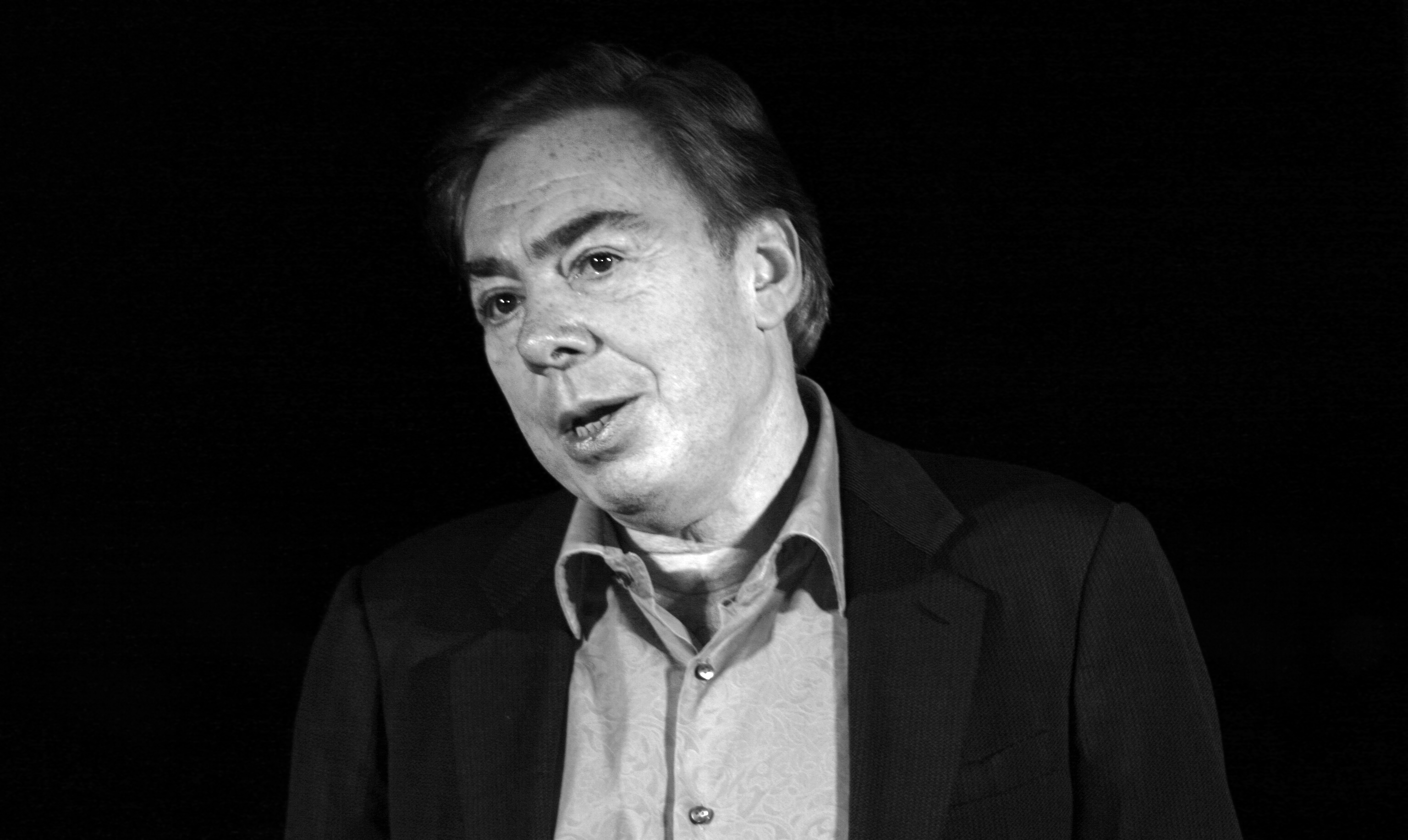 Andrew Lloyd Webber at the set of "How do you solve a problem like Maria?"